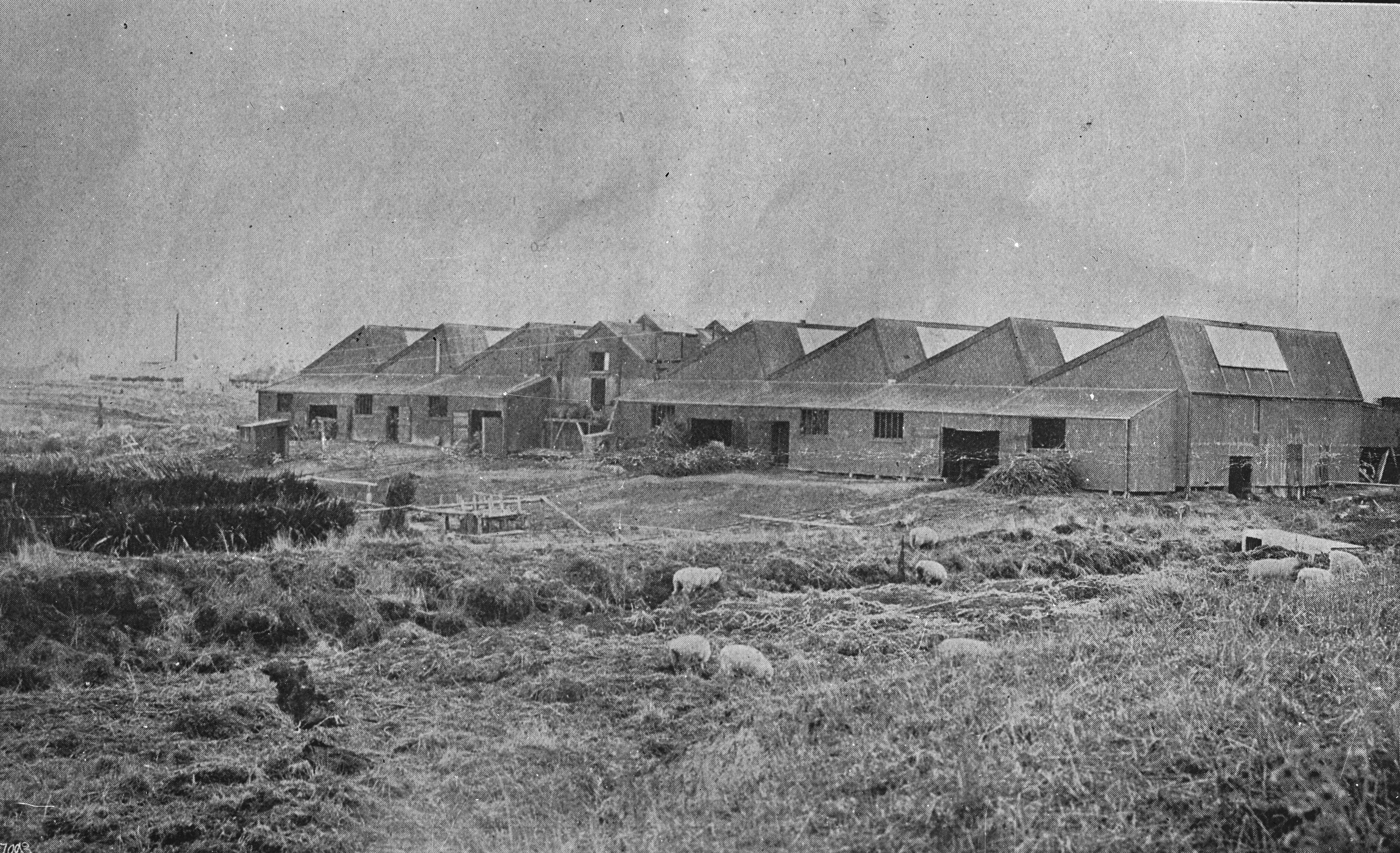 View of the flax mill at Makerua. Negative is a copy of an image in an unidentified publication, photographed by an unidentified photographer. Copy photographed by Albert Percy Godber circa 1910. Inscription from the publication is visible on the negative, but is not shown on the File Print. Also visible is the number 7003 on the original image.